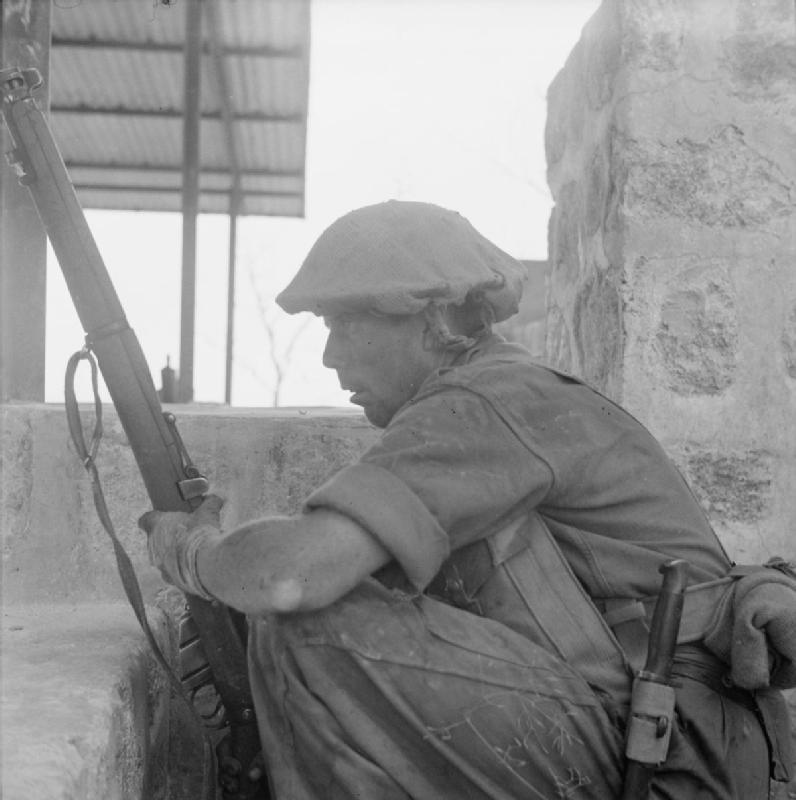 The British Army in Burma 1945 A soldier of 19th Division holds at Fort Dufferin in Mandalay, 20 March 1945.